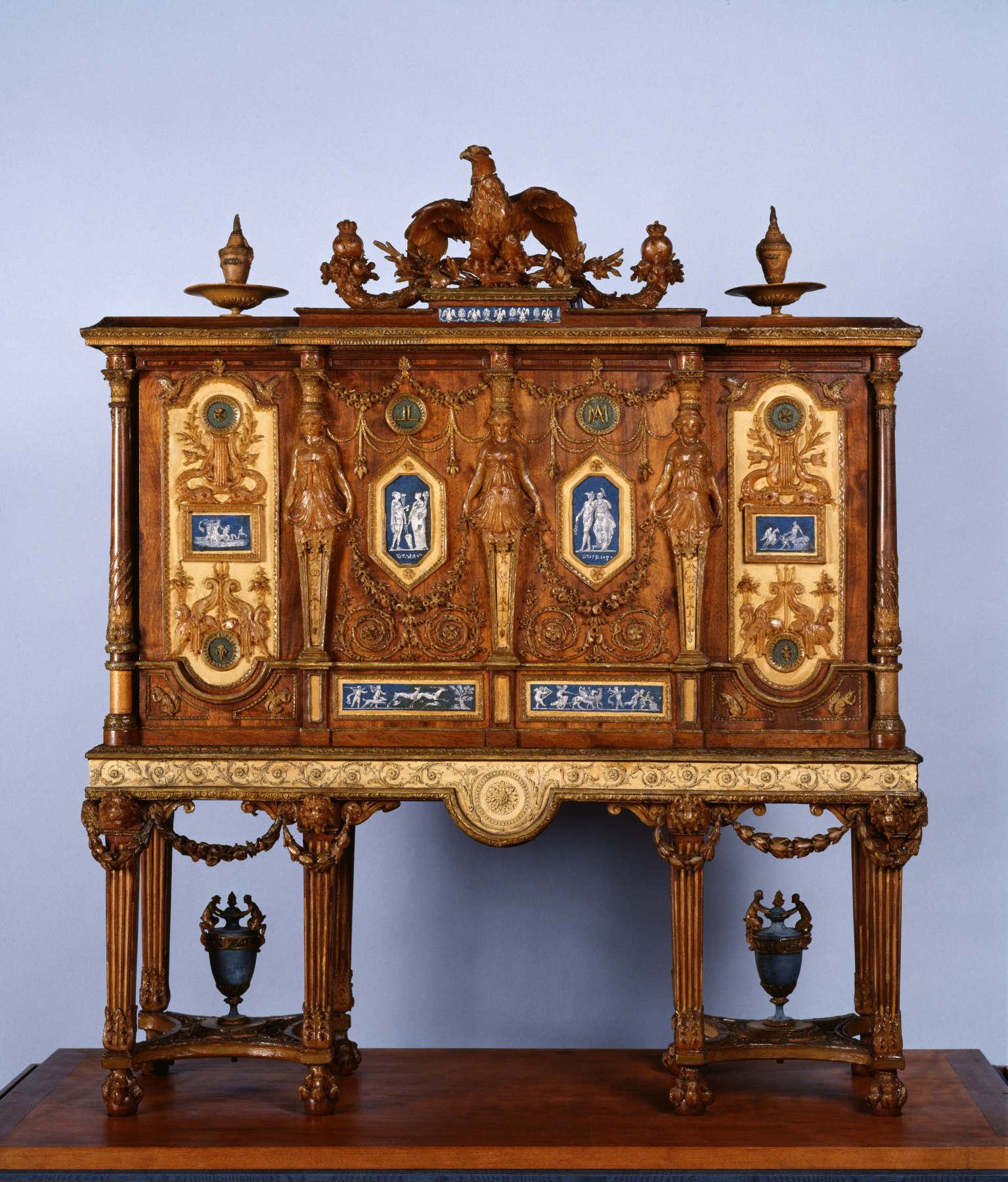 Dugourc entered this model in a contest held in 1787 to choose a design for Queen Marie-Antoinette's new jewel cabinet at the palace of Versailles. The jury selected another entry which was constructed the following year and is now in the Queen's bedroom in the palace. Dugourc, a multi-talented designer, received commissions from the comte de Provence (Louis XVI's brother and the future Louis XVIII) and from both Paul I and Catherine the Great of Russia as well as from Gustavus III of Sweden. The Walters piece, an extremely rare model for a royal commission, reflects the prevailing neoclassical style in the use of such motifs as caryatids (pilasters in the form of human torsos) Greek sphinxes, delicate "rinceaux" (scrollwork) and lyres. Encased in the roundels are the monograms of Louis XVI and Marie Antoinette.